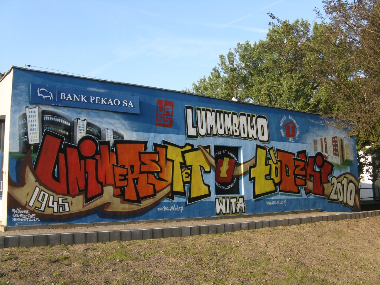 Murale at Lumumbowo, academic campus of University of Lodz